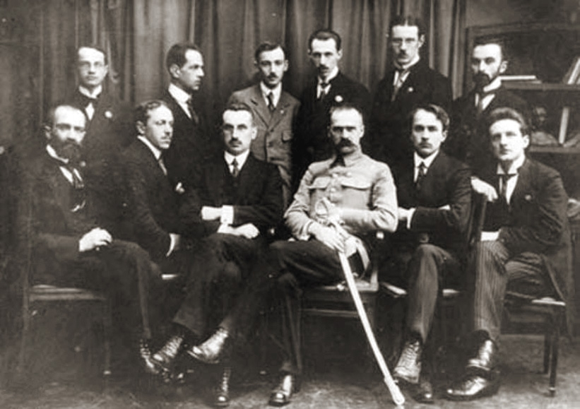 The High Command of Polish Military Organisation (Polska Organizacja Wojskowa) 1917